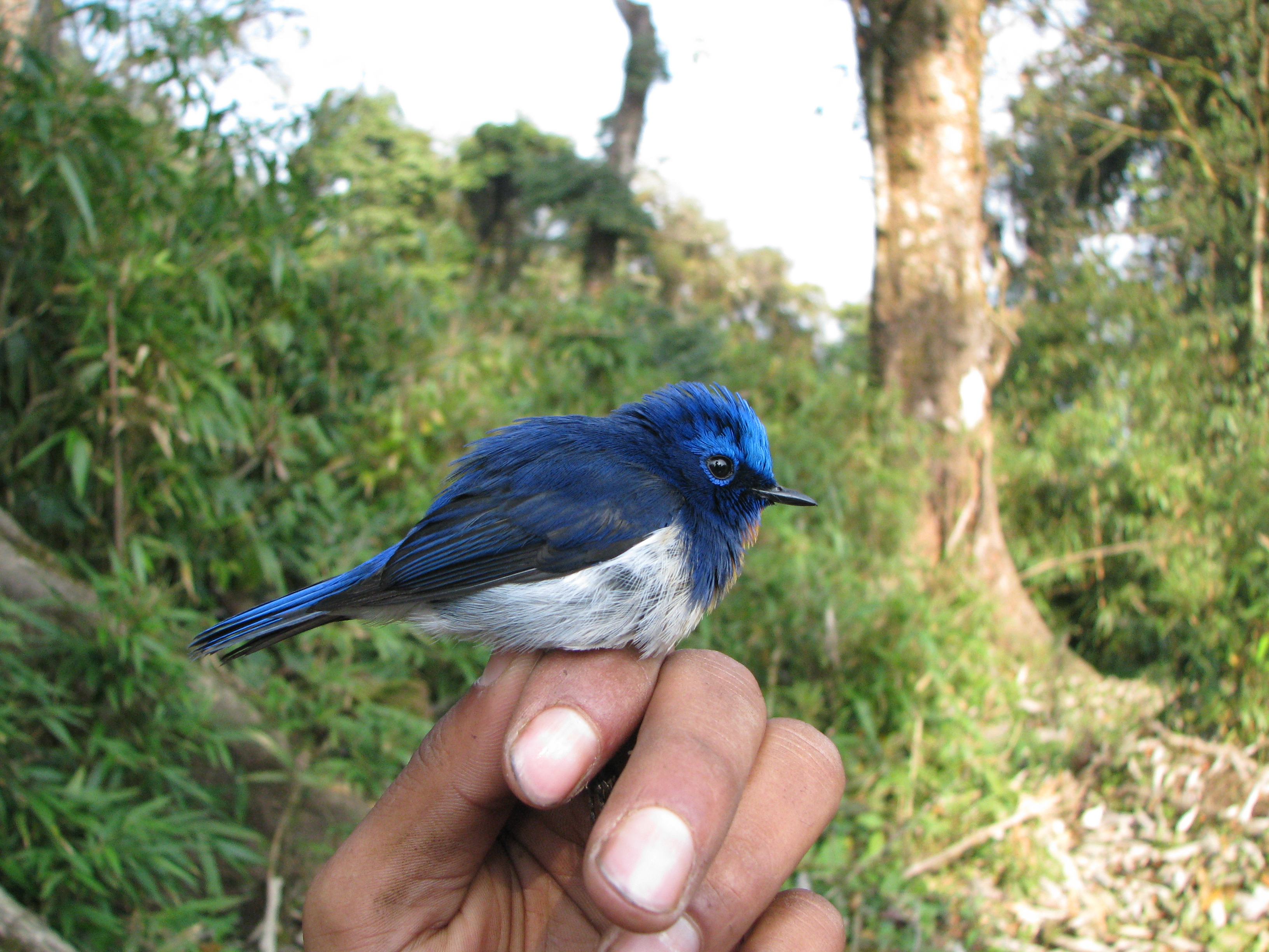 A male Sapphire Flycatcher. This bird was netted and ringed in Eaglenest Wildlife Sanctuary, Arunachal Pradesh, India.